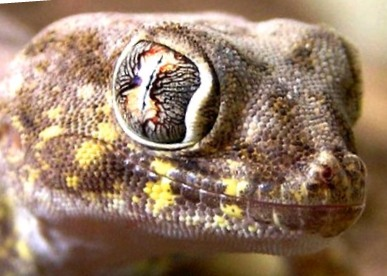 Stenodactylus affinis front